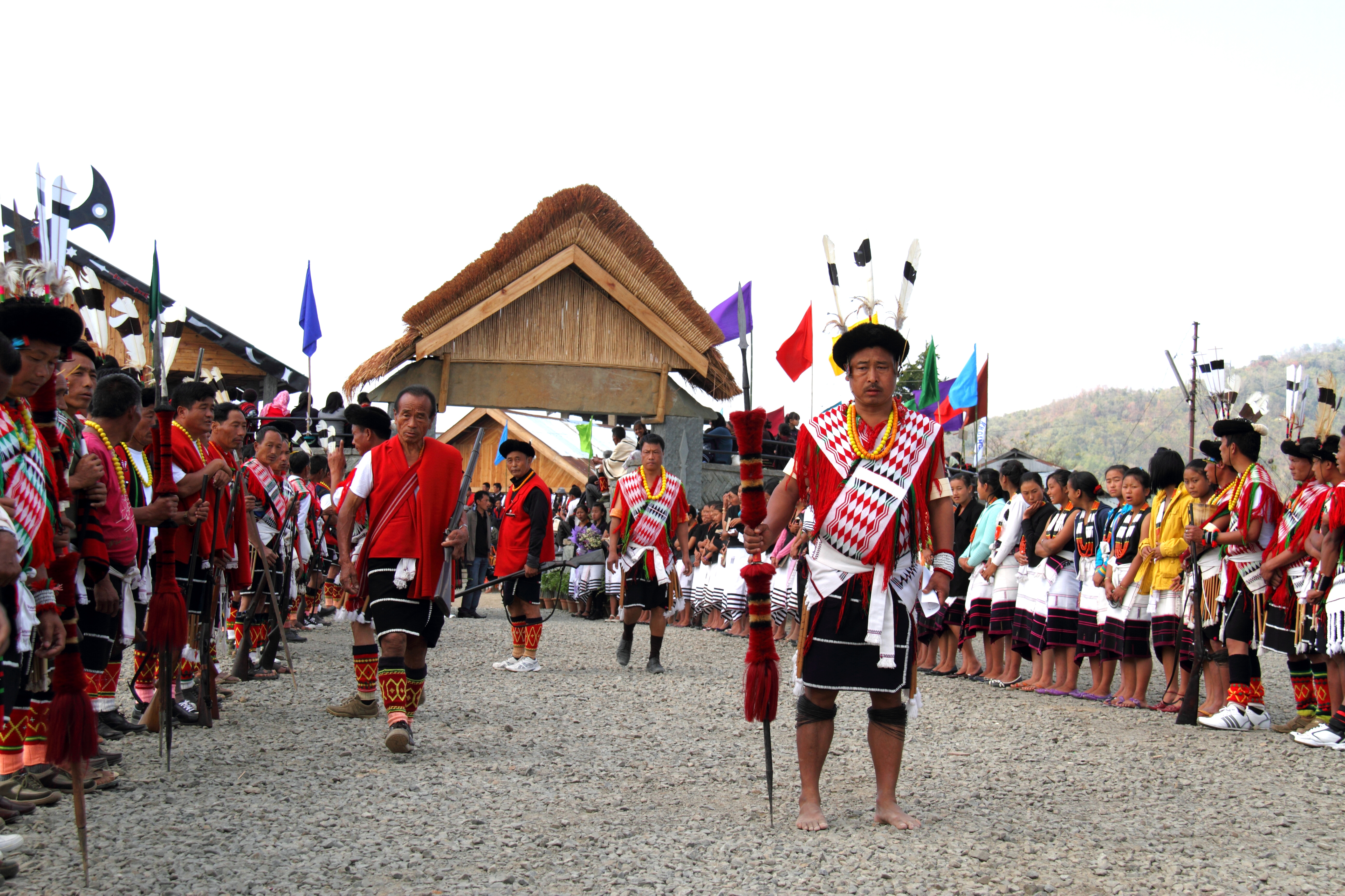 India, Nagaland, festival Angami tribe